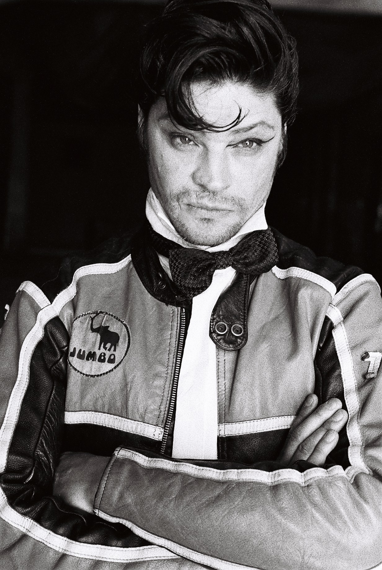 Swiss actor Beat Wittwer